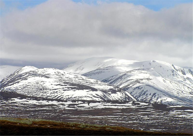 This photograph taken on 02APR08 shows Ben Macdui in The Cairngorms taken from Carn Liath in The Grampains